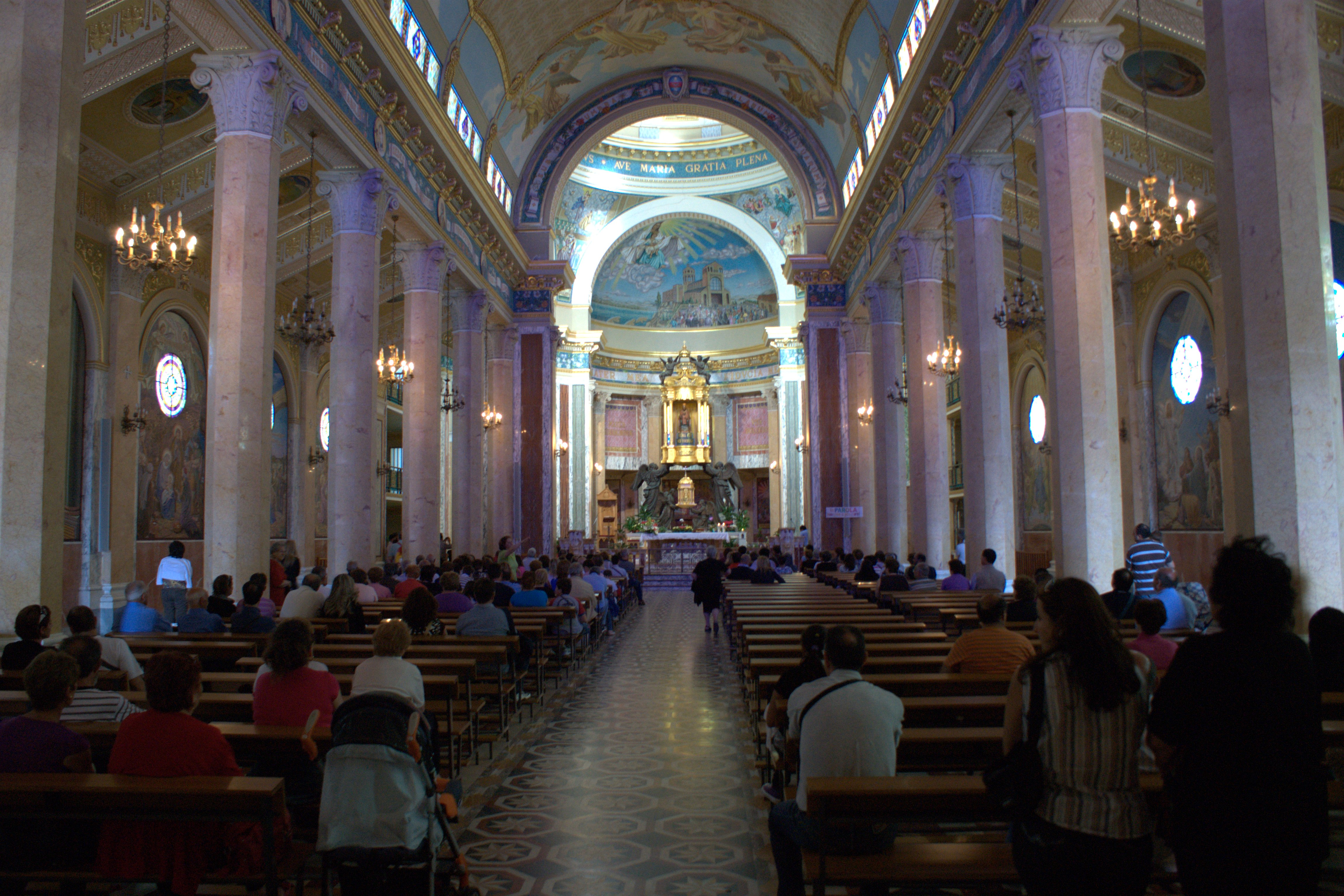 Sanctuary of Tindari from inside